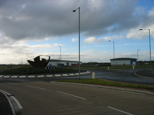 Ashwood Industrial Estate, Ashington